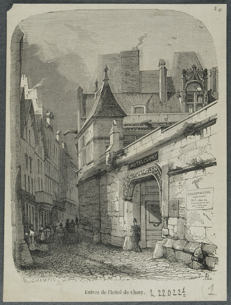 "Entrée de l'hôtel de Cluny" - 135 x 100mm